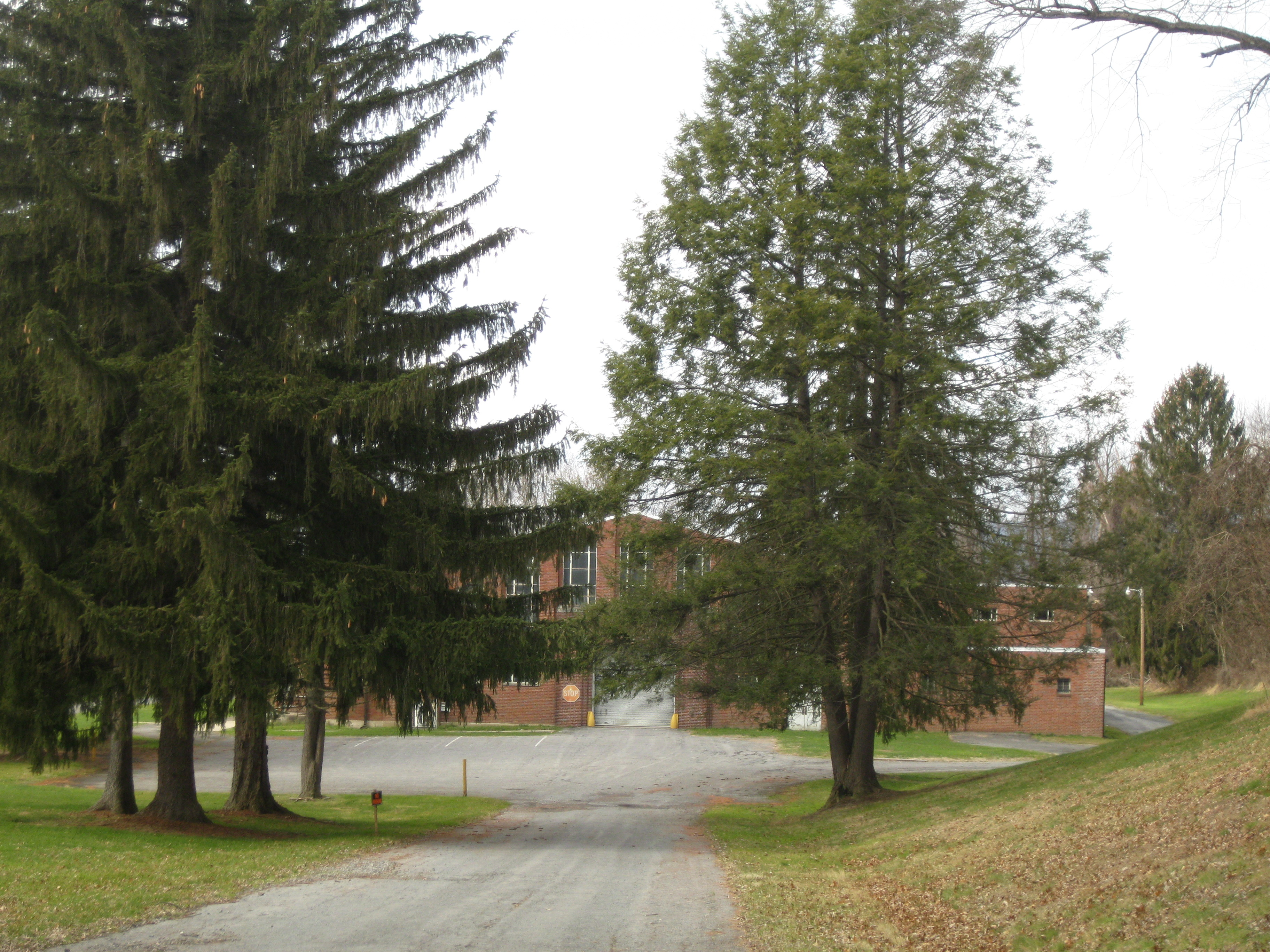 The Sunbury Armory was built in 1938 near Sunbury, in Upper Augusta Township, Northumberland County, Pennsylvania, in the USA. Listed on the NRHP. There were prominent "No Trespassing" signs, so this was as close as I could get.